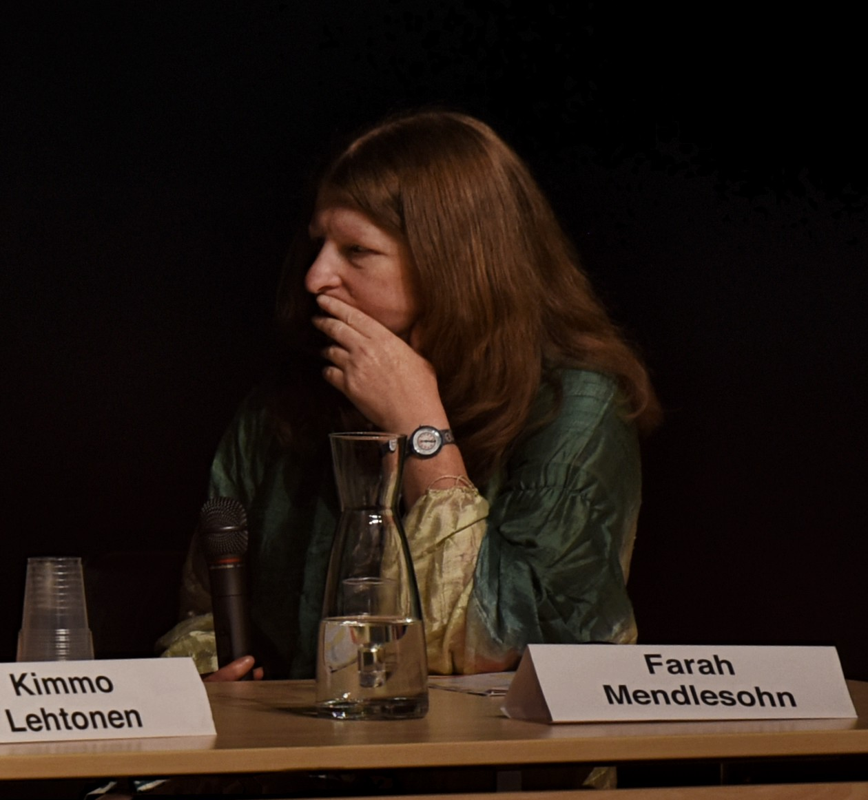 Writers Kristina Hård (Sweden), Ian Sales (England), Kimmo Lehtonen (Finland) and scholar Farah Mendlesohn (England) at Archipelacon, 2015.